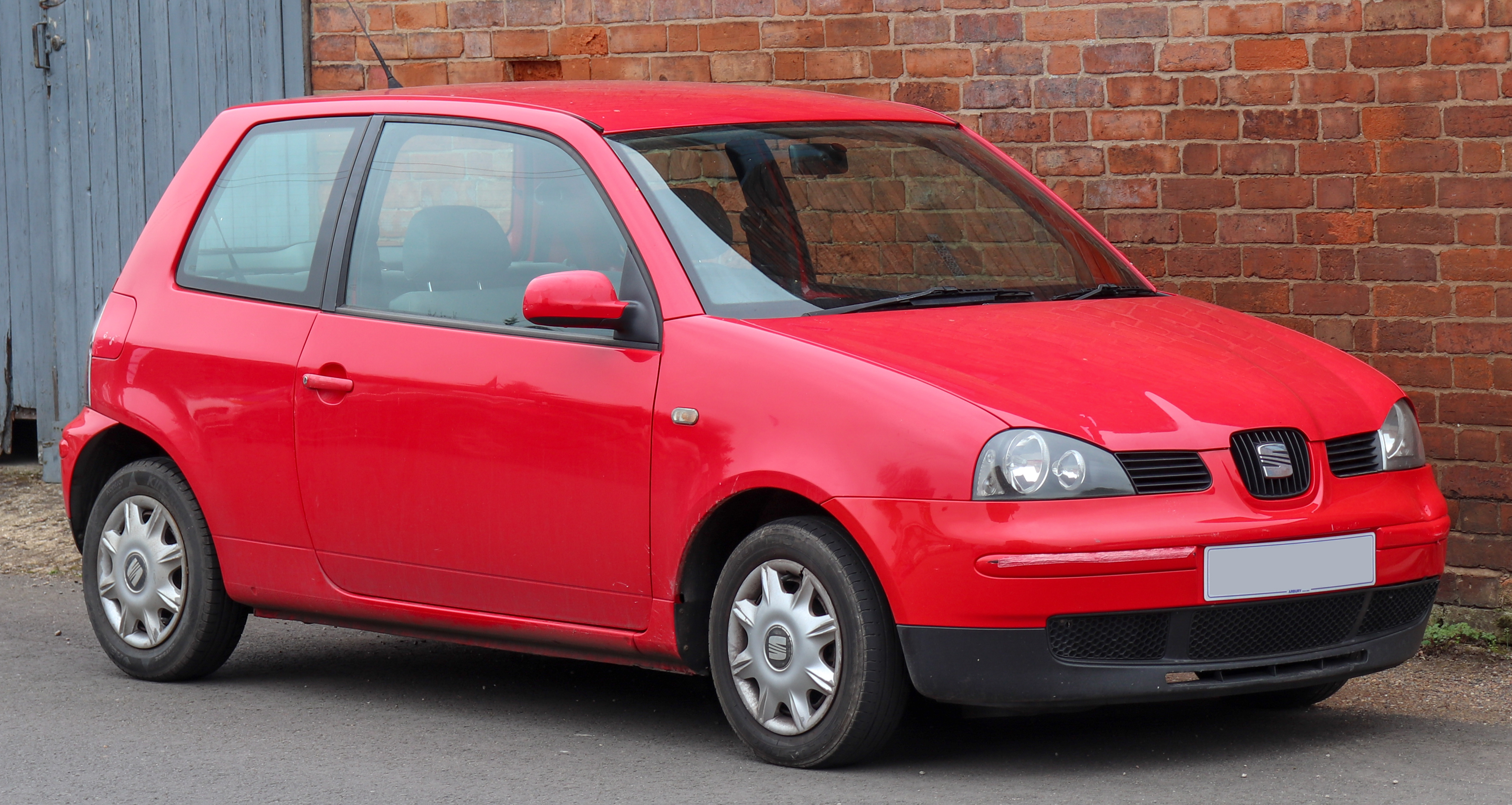 2002 SEAT Arosa 1.0 Front Taken in Warwick